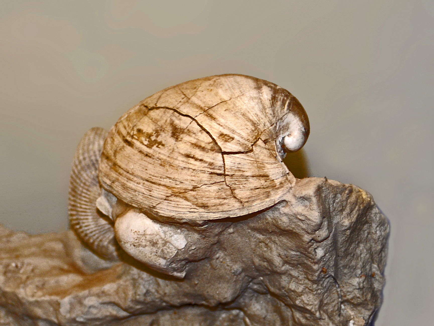 Fossil shell of Glossus humanus from Pliocene of Italy, on display at the Museo Paleontologico, Asti